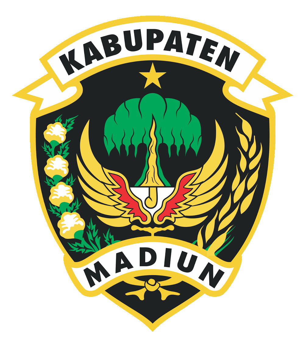 Coat of arms of Madiun Regency, East Java